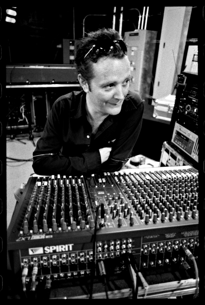 Ben Watkins of Juno Reactor warming up for a show in Portland, Oregon during the 2001 Shango Tour.